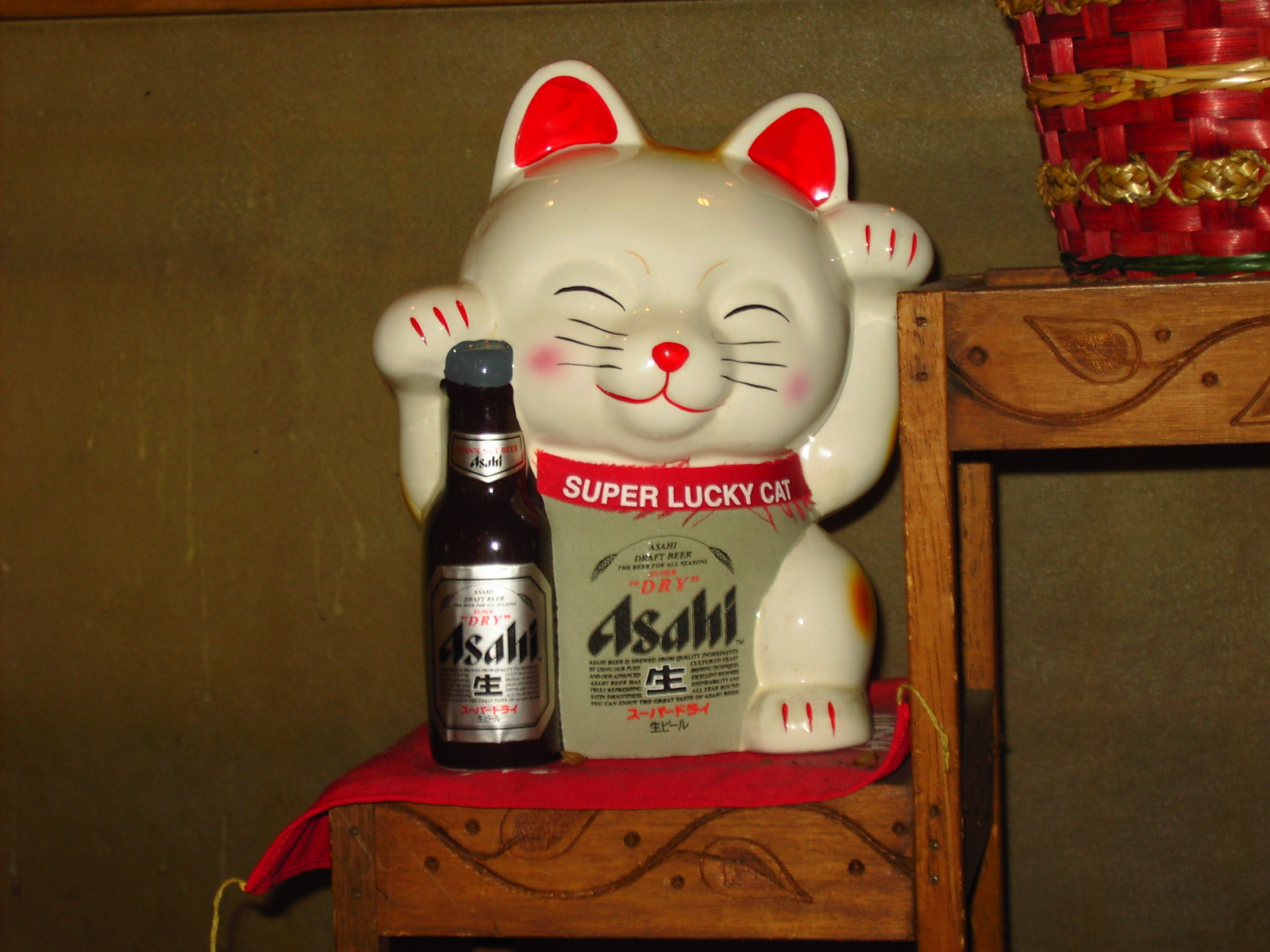 A cat of fortune (Maneki Neko).